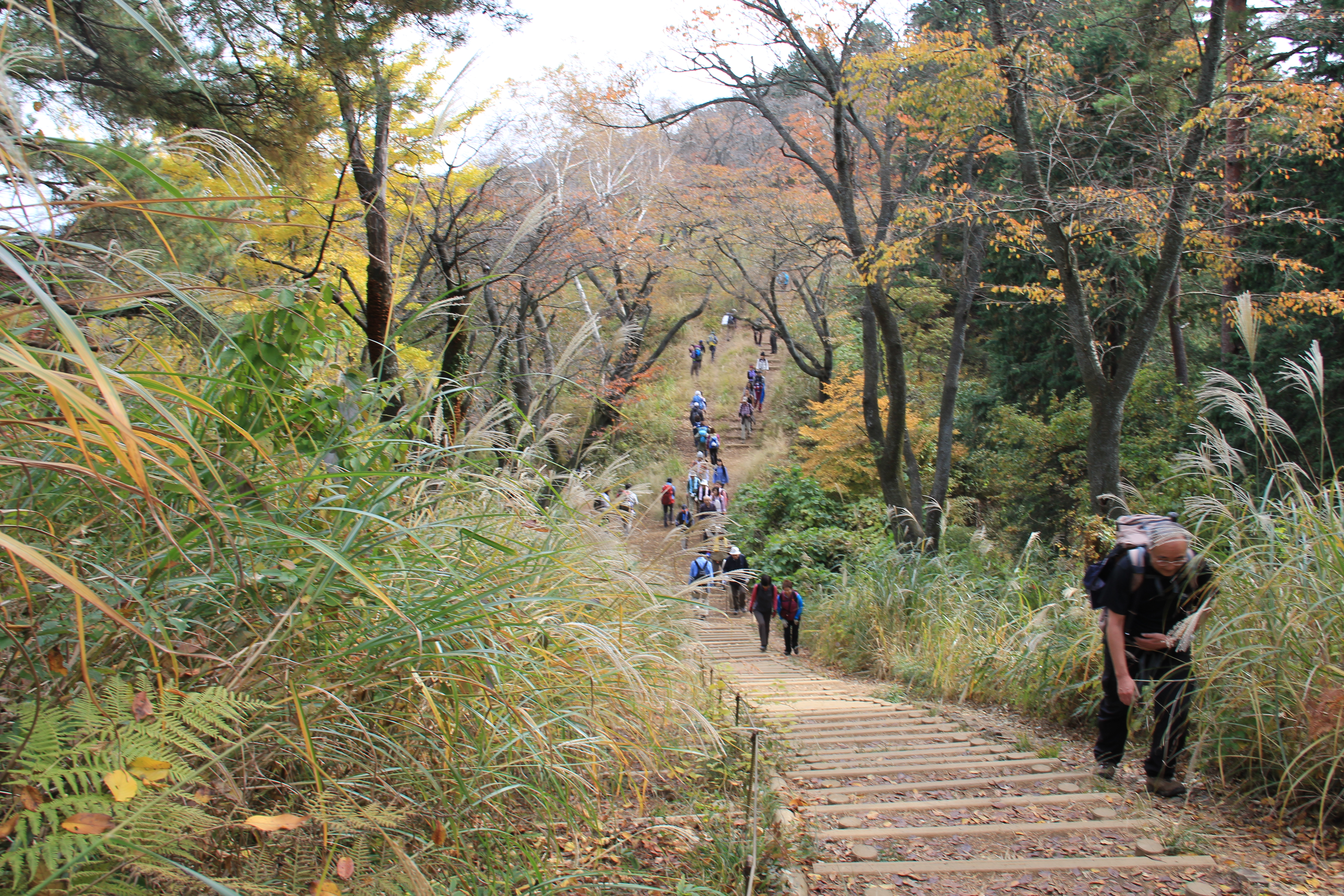 Itcho-daira in Takaosan